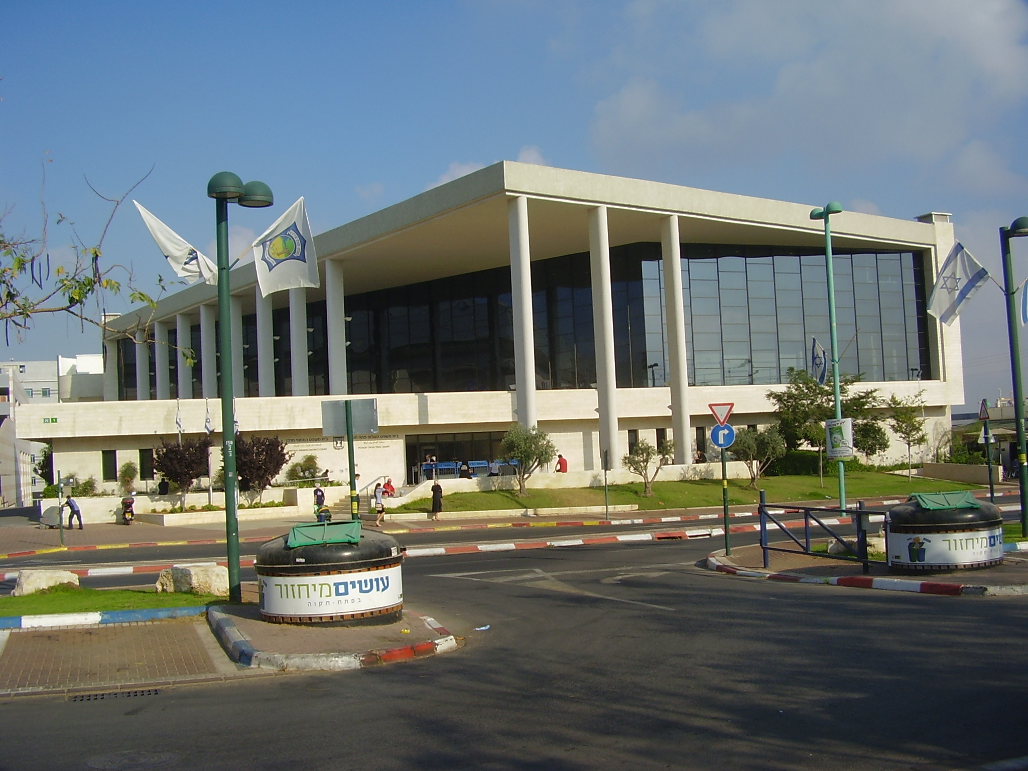 Court house in Petah Tikva, Israel